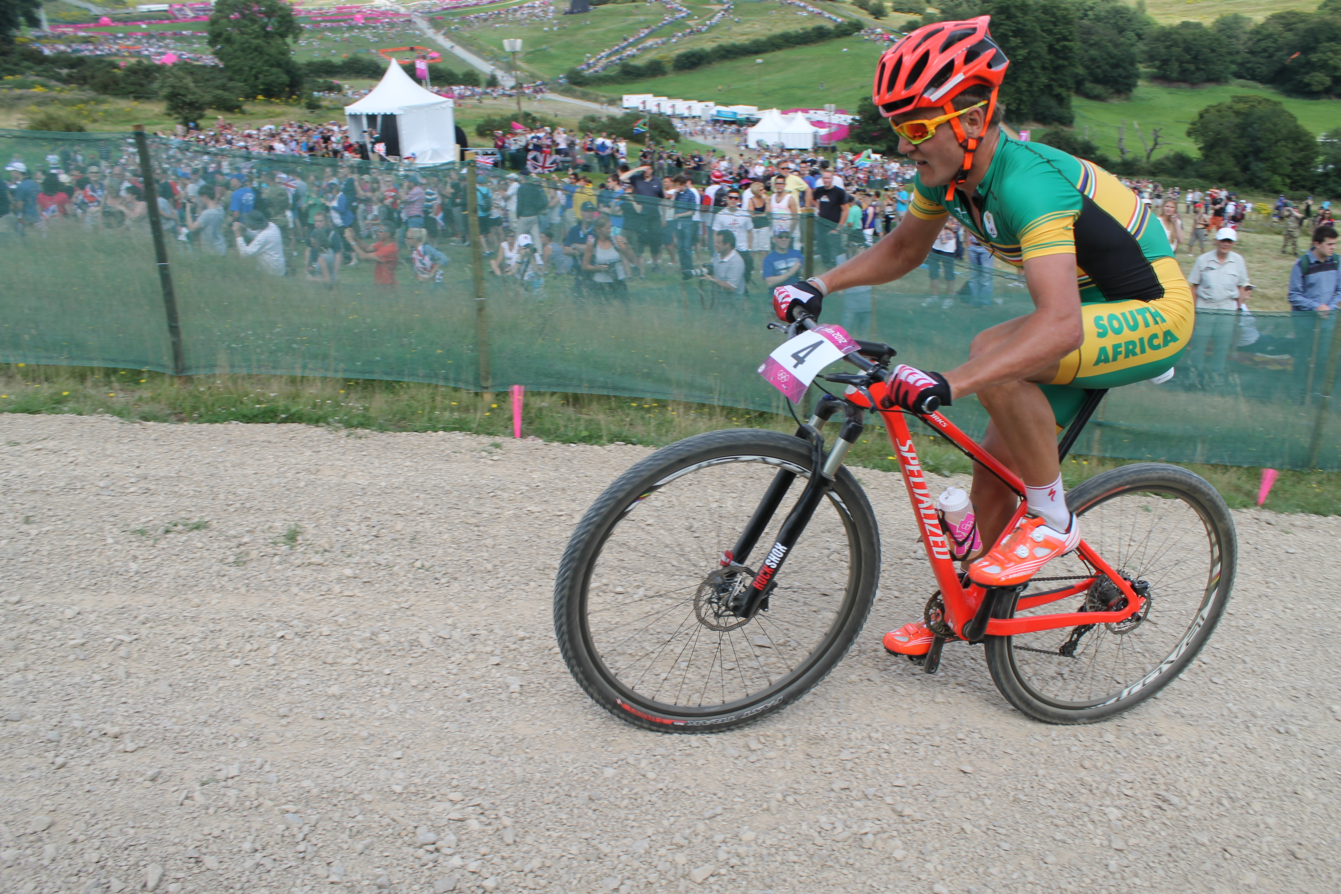 Cycling at the 2012 Summer Olympics – Men's cross-country Burry Stander (4) (RSA) IMG_3994